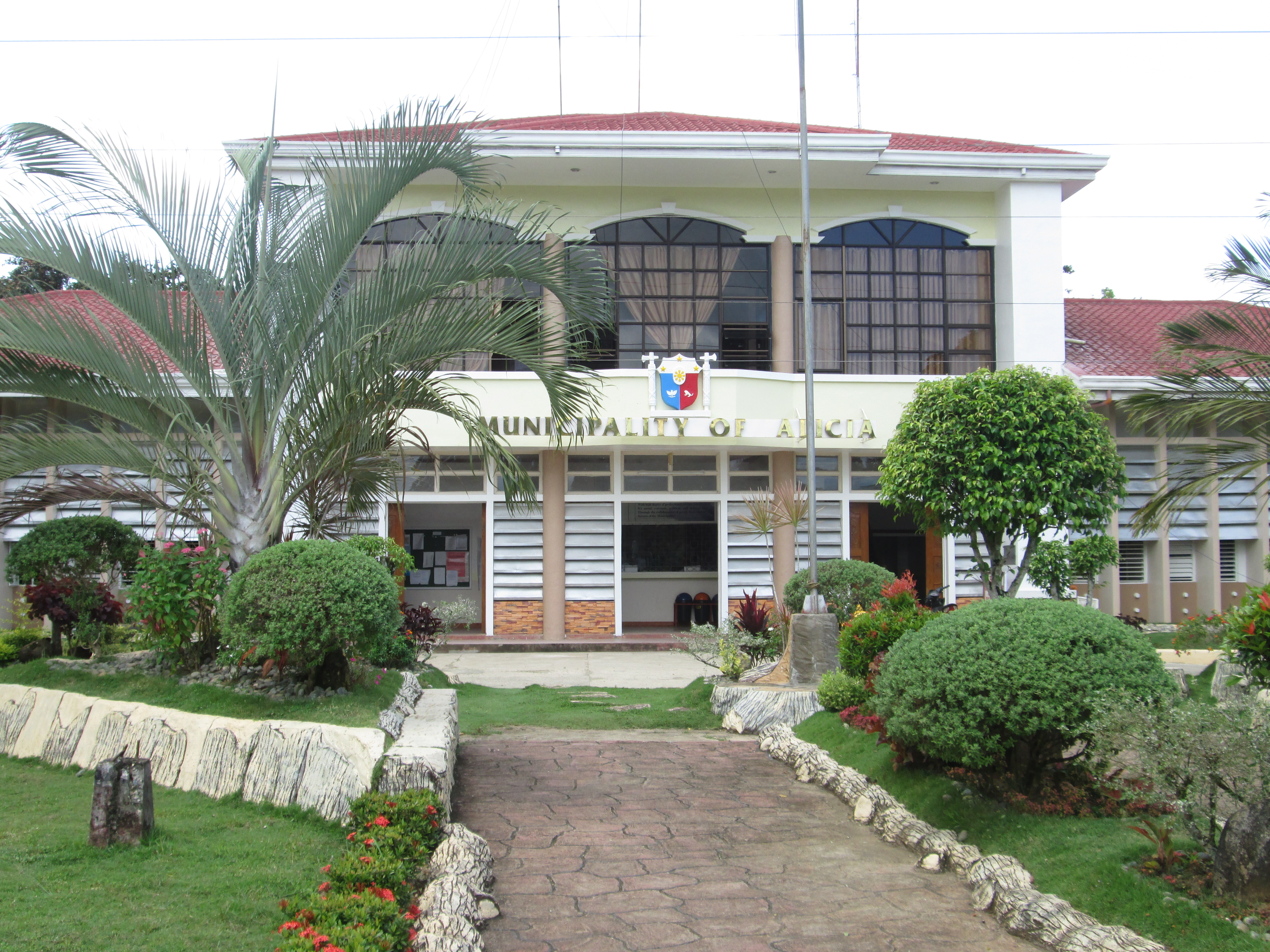 Picture of the Municipality of Alicia in Bohol The Philippines